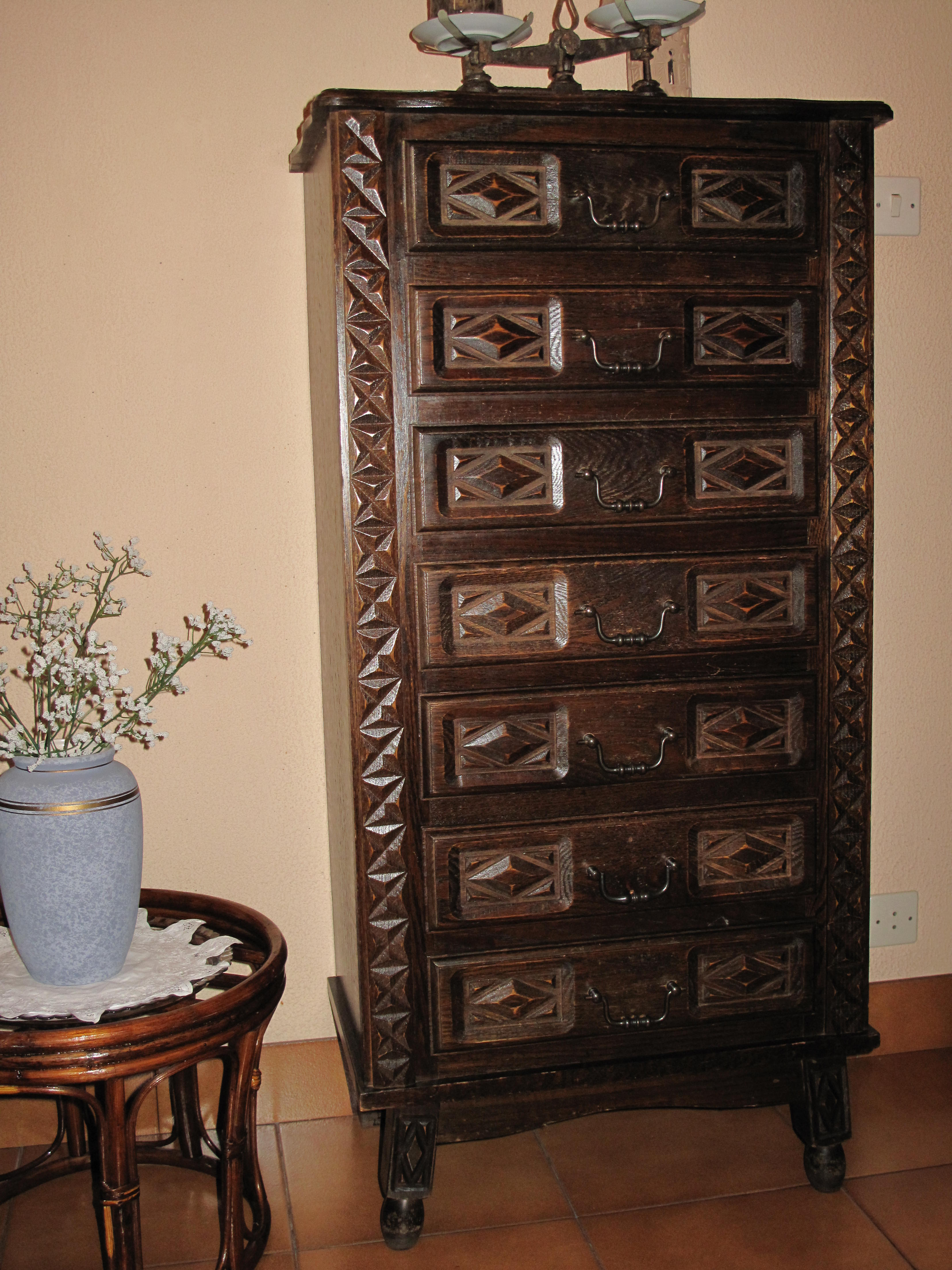 Furniture of French type named "semainier" (in French, semaine = week). There are 7 drawers, one for every day of the week, to put clothing and especially underwear of the day.